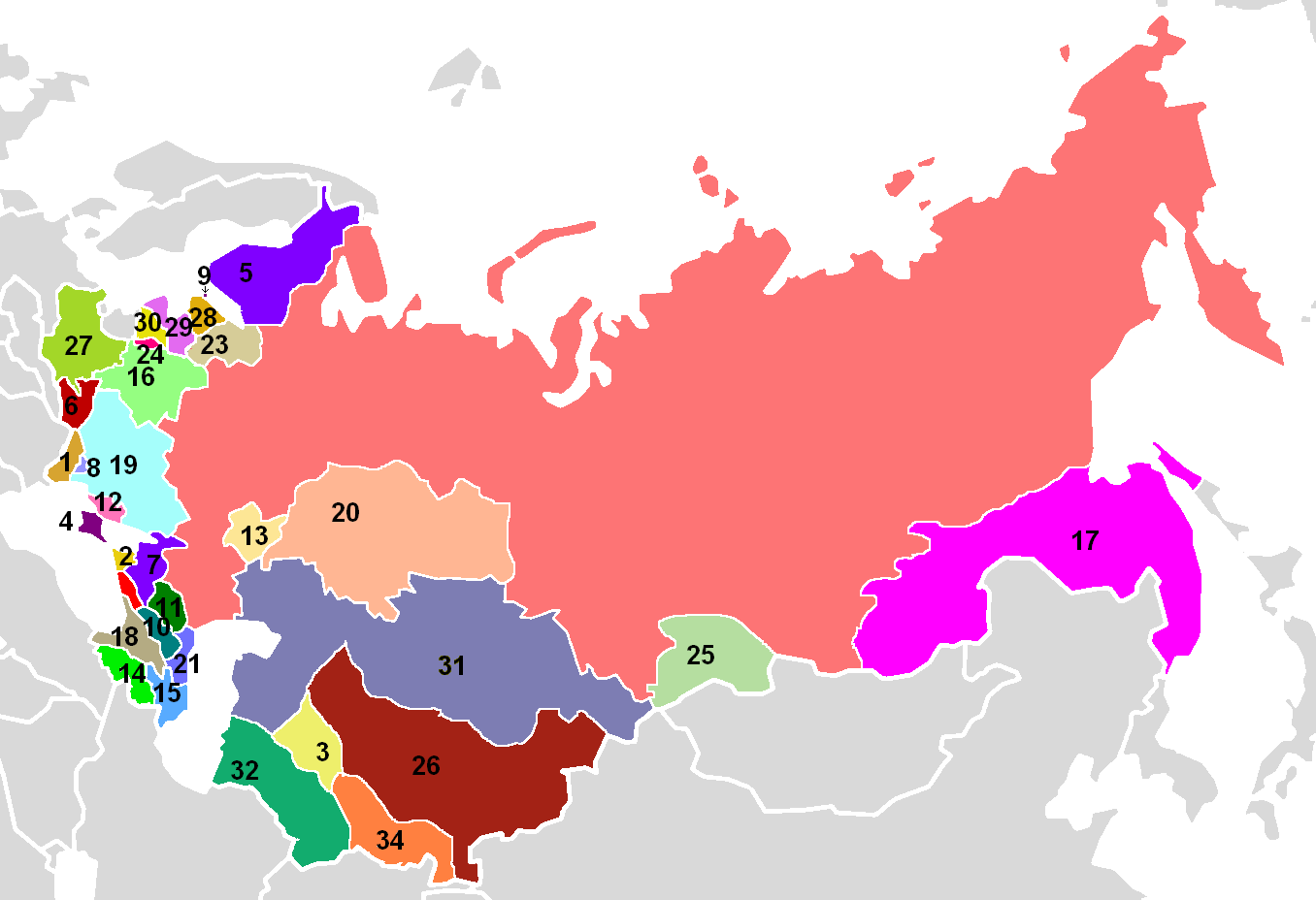 "English" Former soviet republics after the fall of the Russian Empire